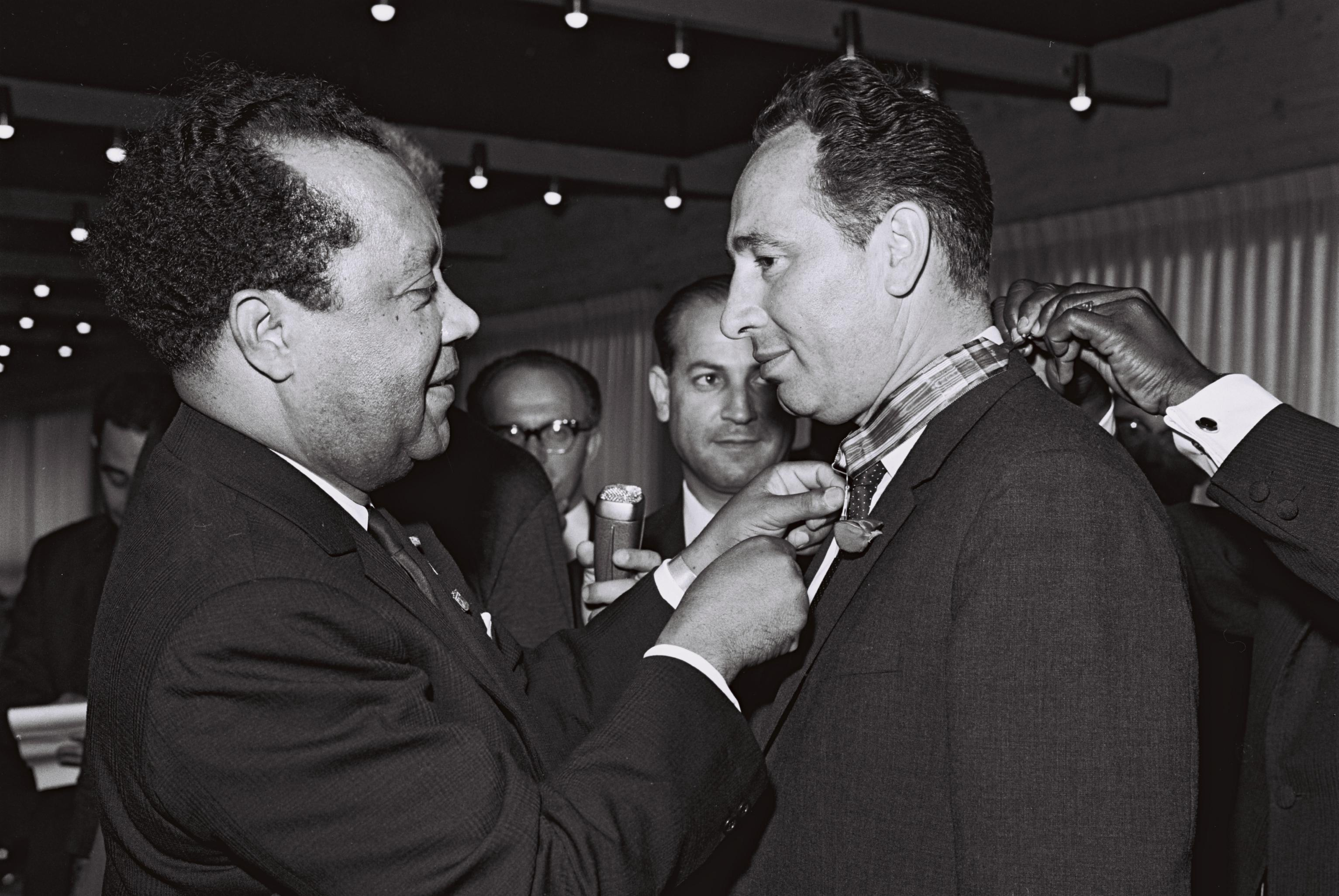 TOGO PRES. NICOLAS GRUNITSKY BESTOWING DECORATION OF COMMANDER OF ORDER OF MONO ON DEPUTY DEFENSE MIN. SHIMON PERES (R). ðùéà èåâå âøåðéöø\÷é îòðé÷ ìñâï ùø äáèçåï ùîòåï ôøøñ òéèåø îñãø îåðå.